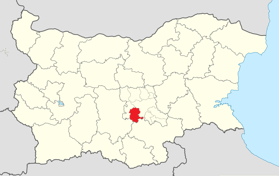 Location map of Chirpan Municipality within Bulgaria and Stara Zagora Province